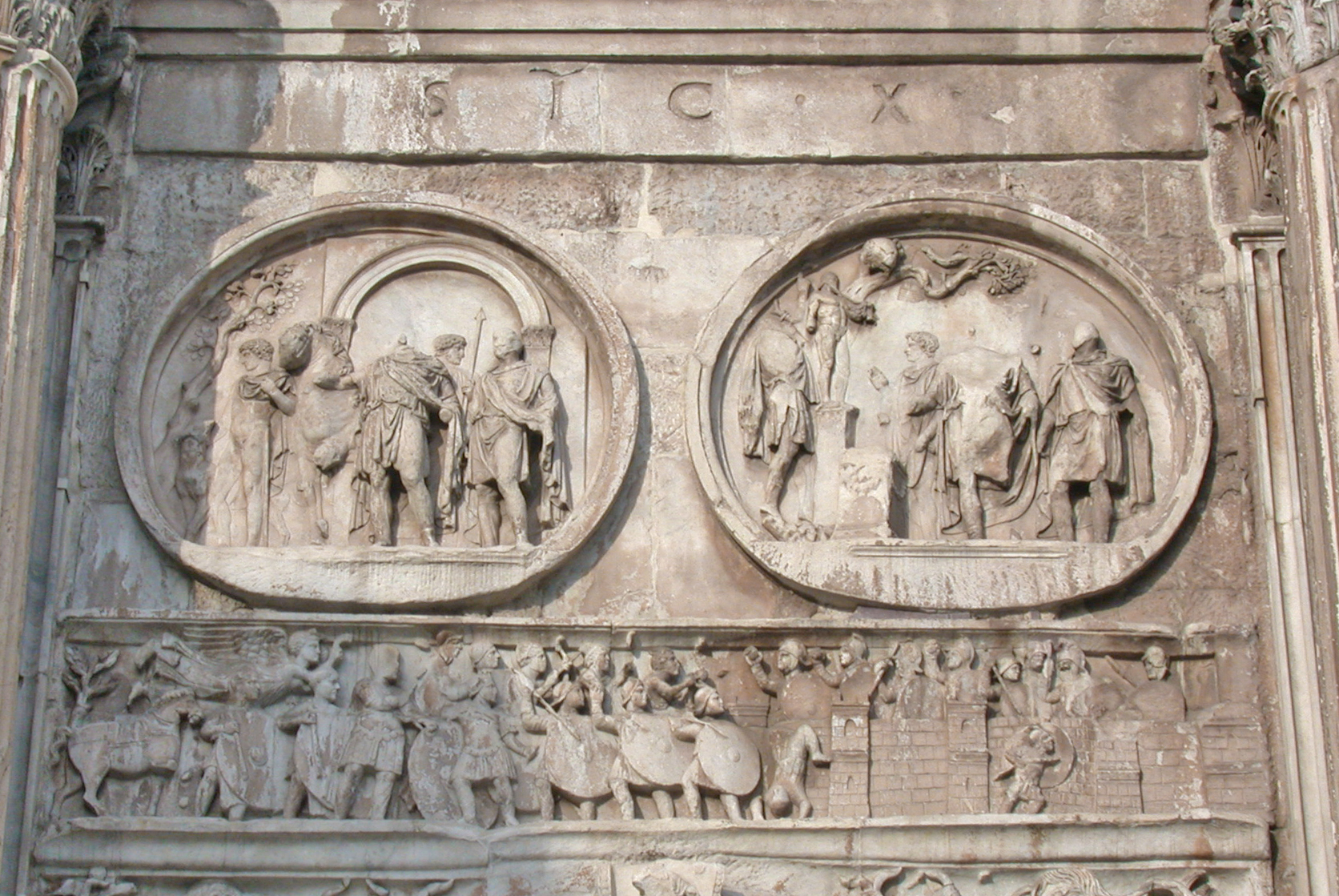 Rome, Arch of Constantine, reliefs above the west lateral passage. Personal photo (november 2005) by MM in it.wiki